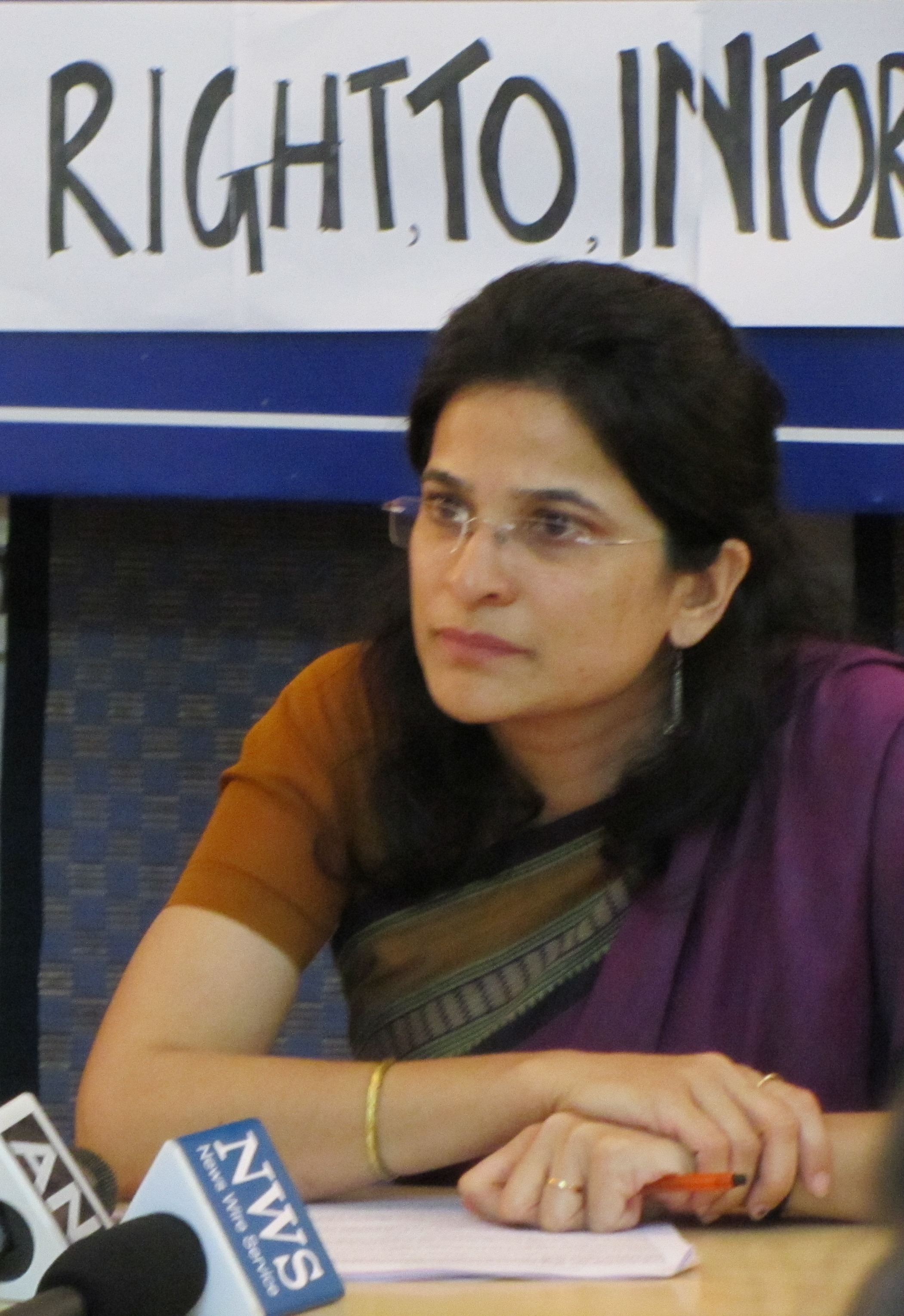 Photograph of Anjali Bhardwaj